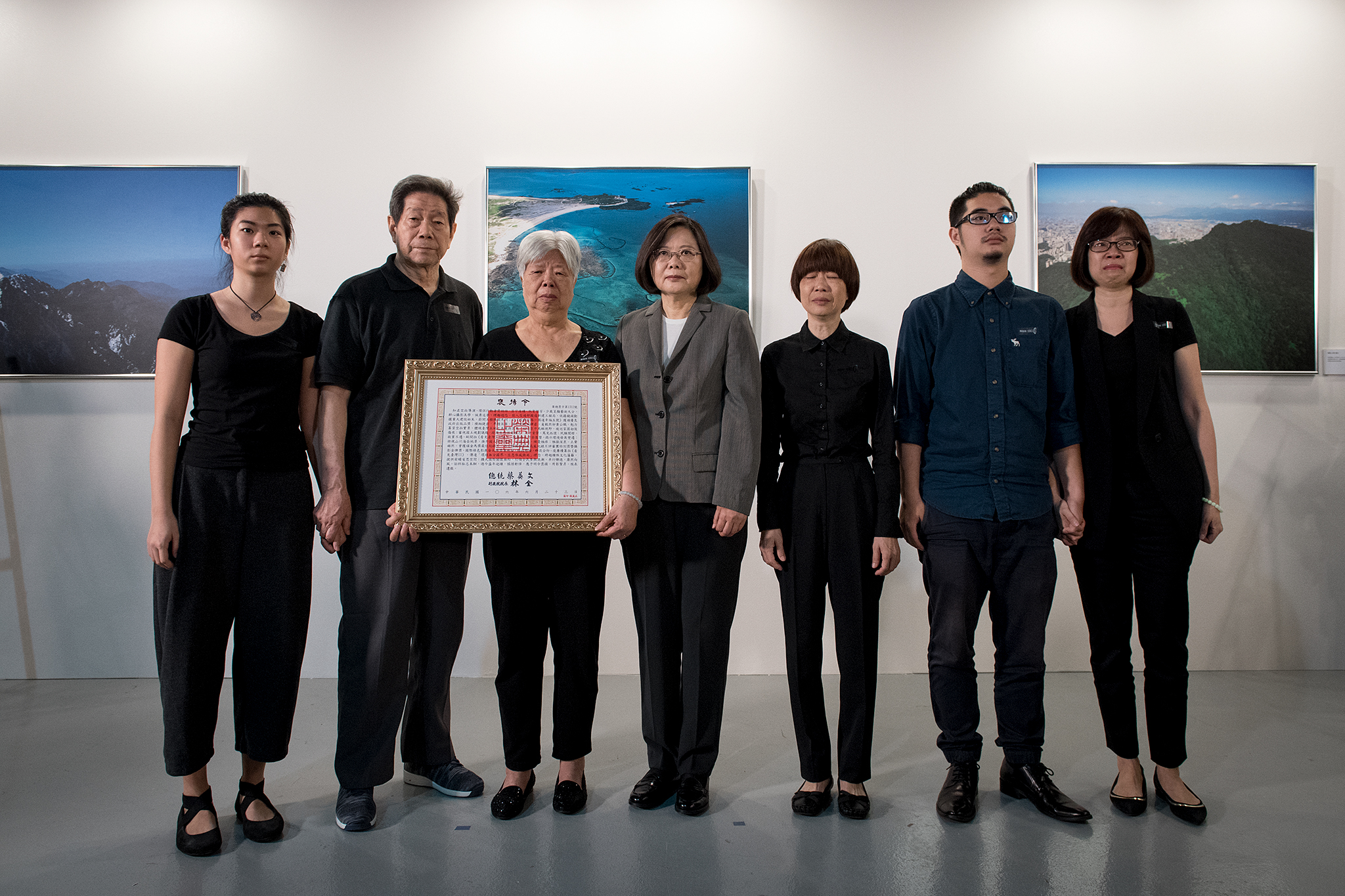 授權方式及範圍：中華民國總統府│政府網站資料開放宣告 Authorization Method & Scope: Office of the President, Republic of China (Taiwan) | Government Website Open Information Announcement